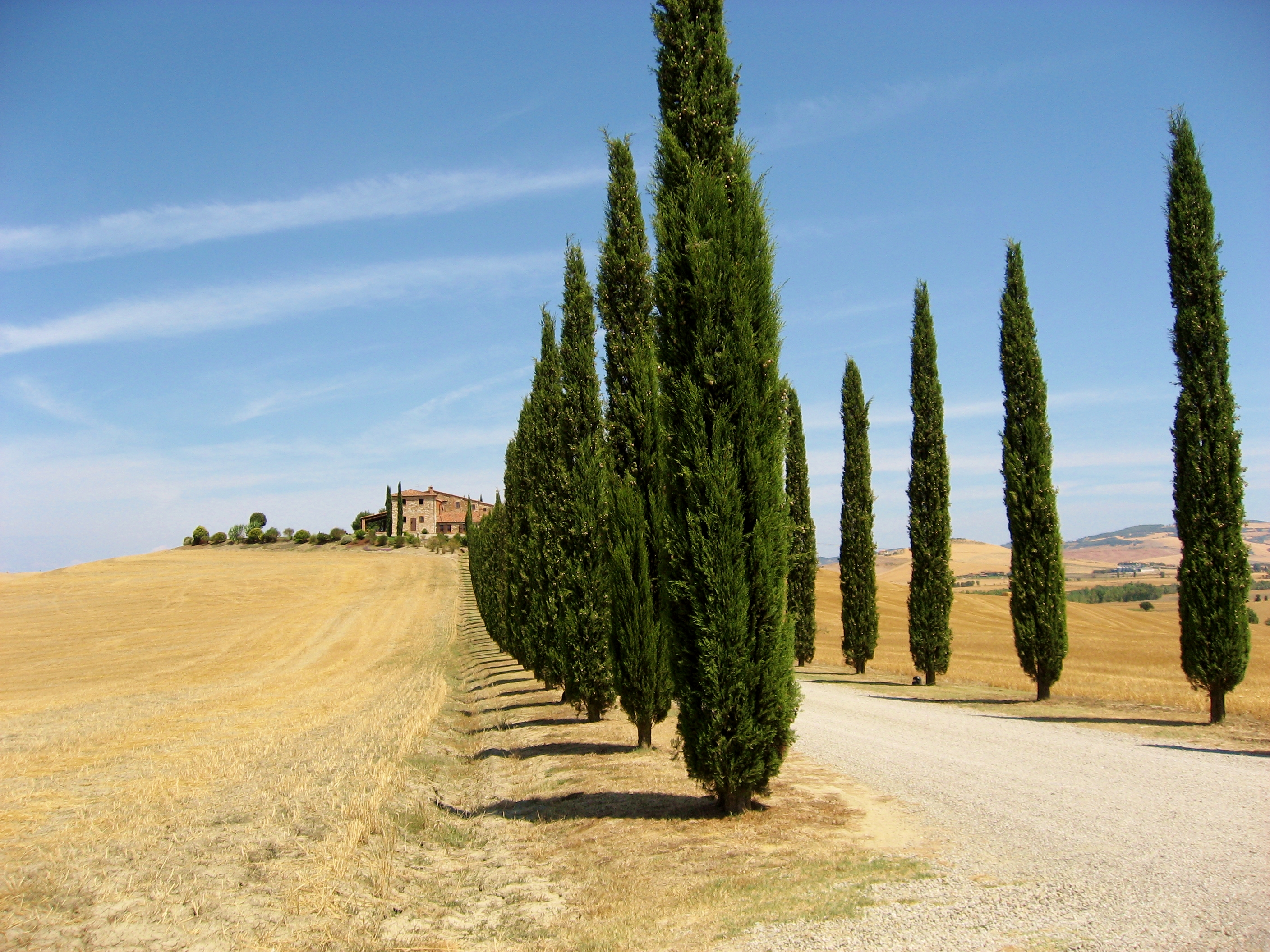 Landscape in Val d'Orcia, (Provincia di Siena, Toscana) in summer day.